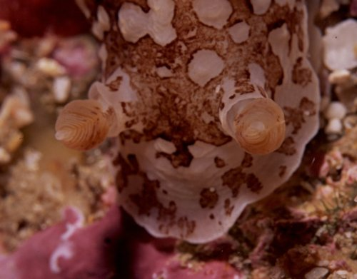 photograph of the rhinophores of the variable dorid Aphelodoris brunnea (Dendrodoris nigra (Stimpson, 1855) according to WoRMS) taken in Algoa Bay off the South African coast in 14m of water, using a Nikonos V camera